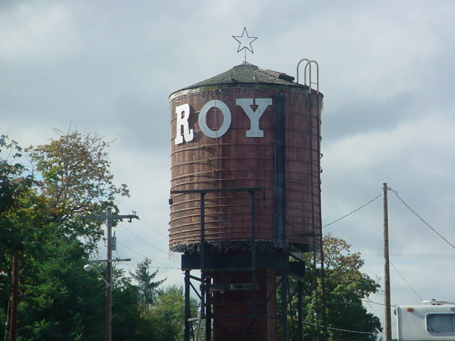 Water tower located in Roy, Washington, United States